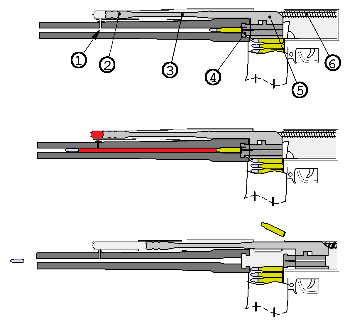 unifilar drawing of the gas-operated reloading of a firearm, October 2005 1) gas port, 2) piston head, 3) rod, 4) bolt, 5) bolt carrier, 6) spring